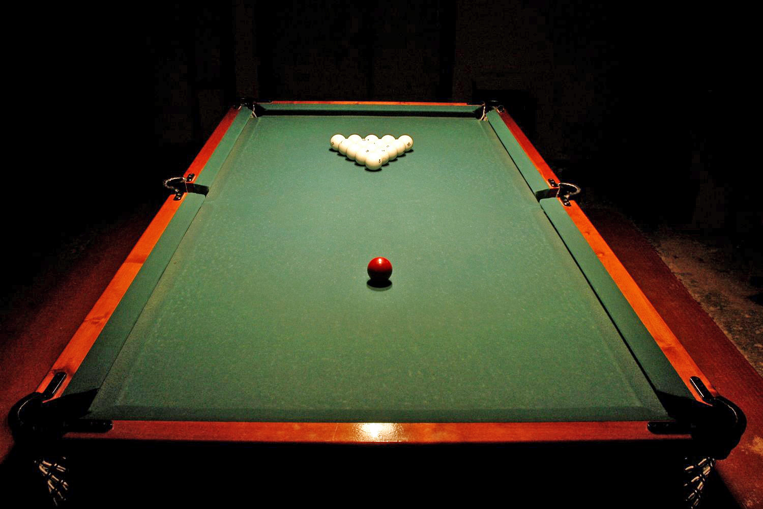 Russian pyramid game setup, with the white object balls in a triangle rack at the foot of the table, and the red cue ball behind (up-table of) the head string.